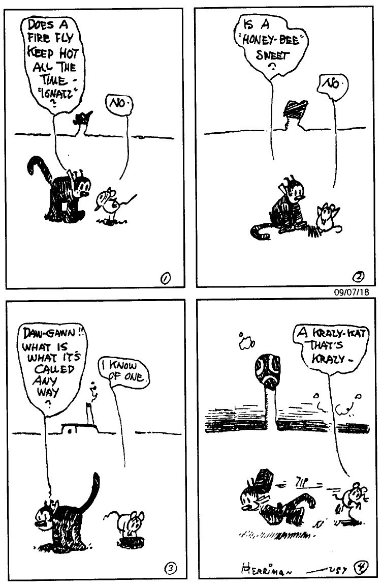 Krazy Kat daily comics strip by George Herriman from 1918-09-07